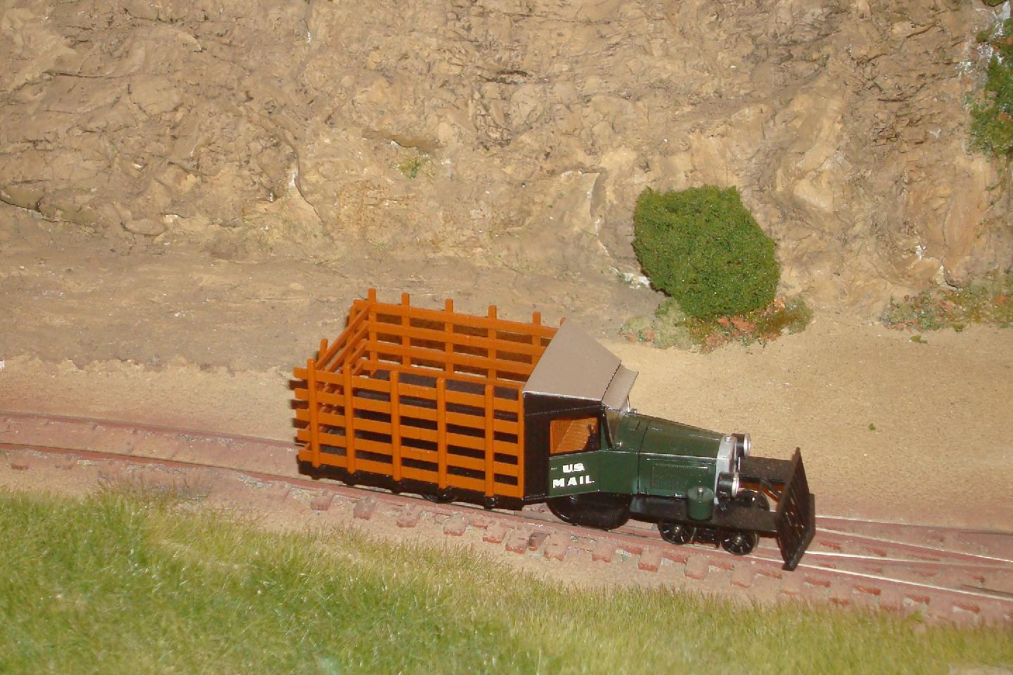 Bachmann Spectrum Rail Truck. Detail image of a private model railway layout in 0n30 scale.